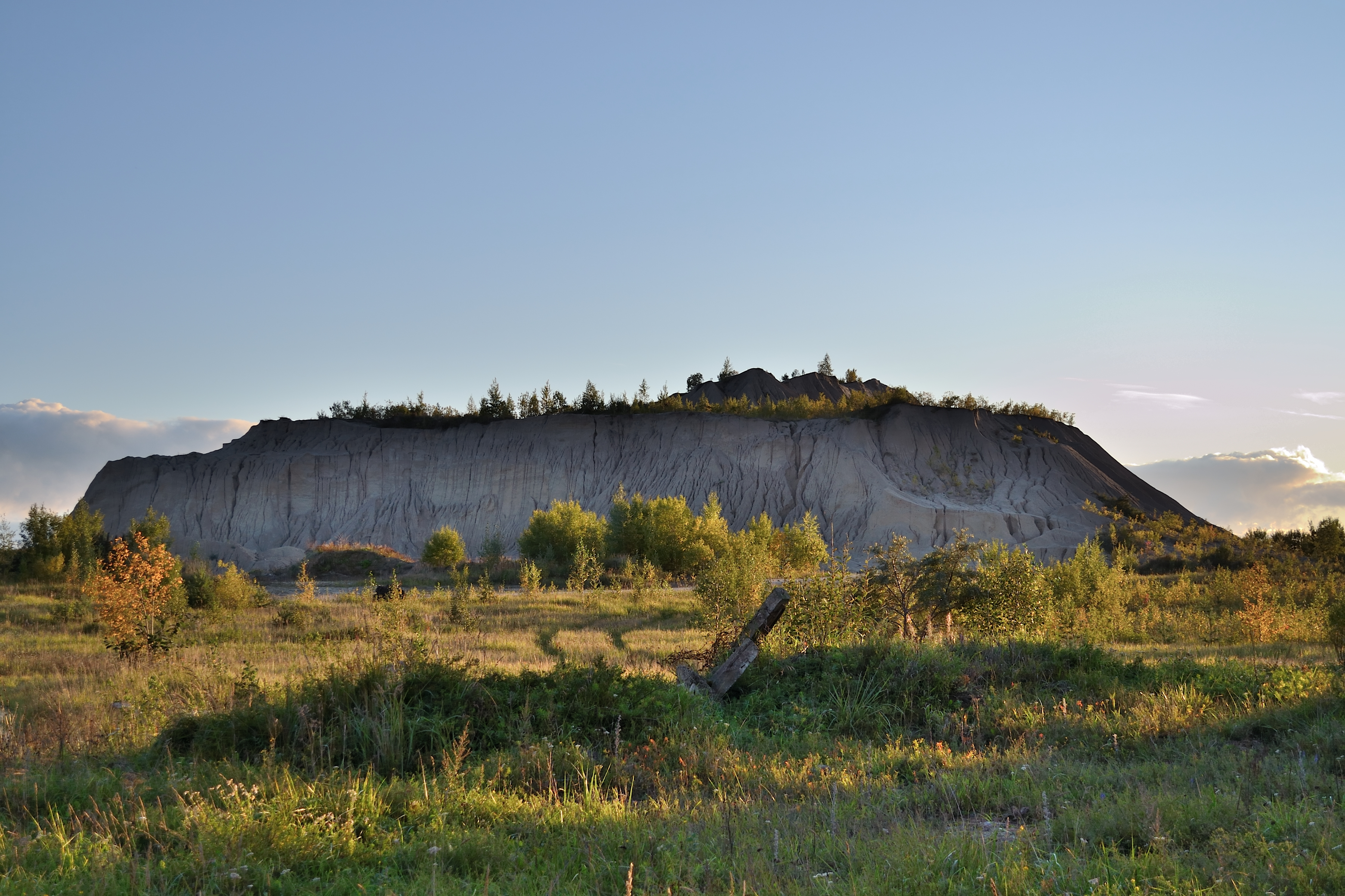 Spoil tip (slag heap) in Rummu, Estonia.